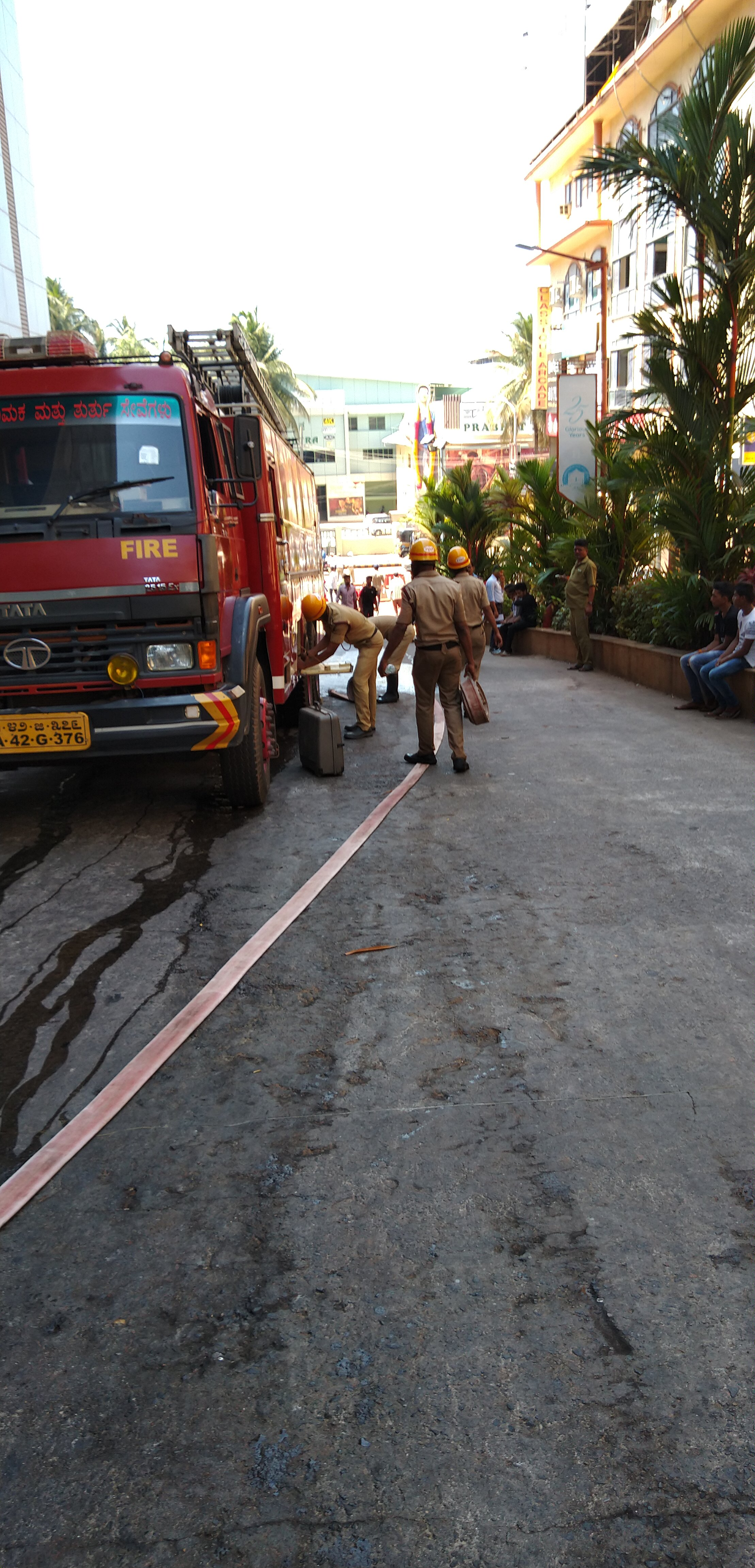 Fire brigade team outside the city center mall after fire was extinguished.